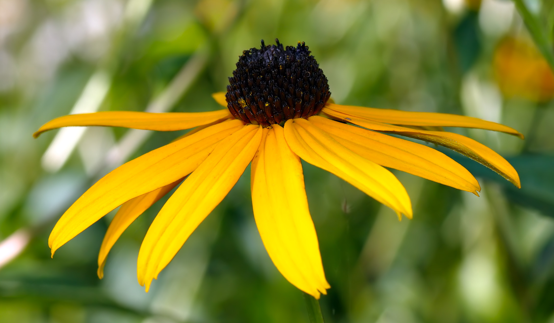 This image shows the blossom of an Orange Coneflower (Rudbeckia fulgida var. sullivantii 'Goldsteinii').